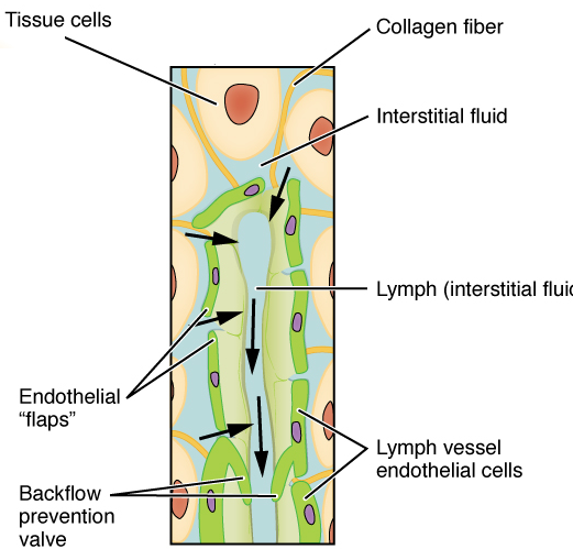 Based off: Other version